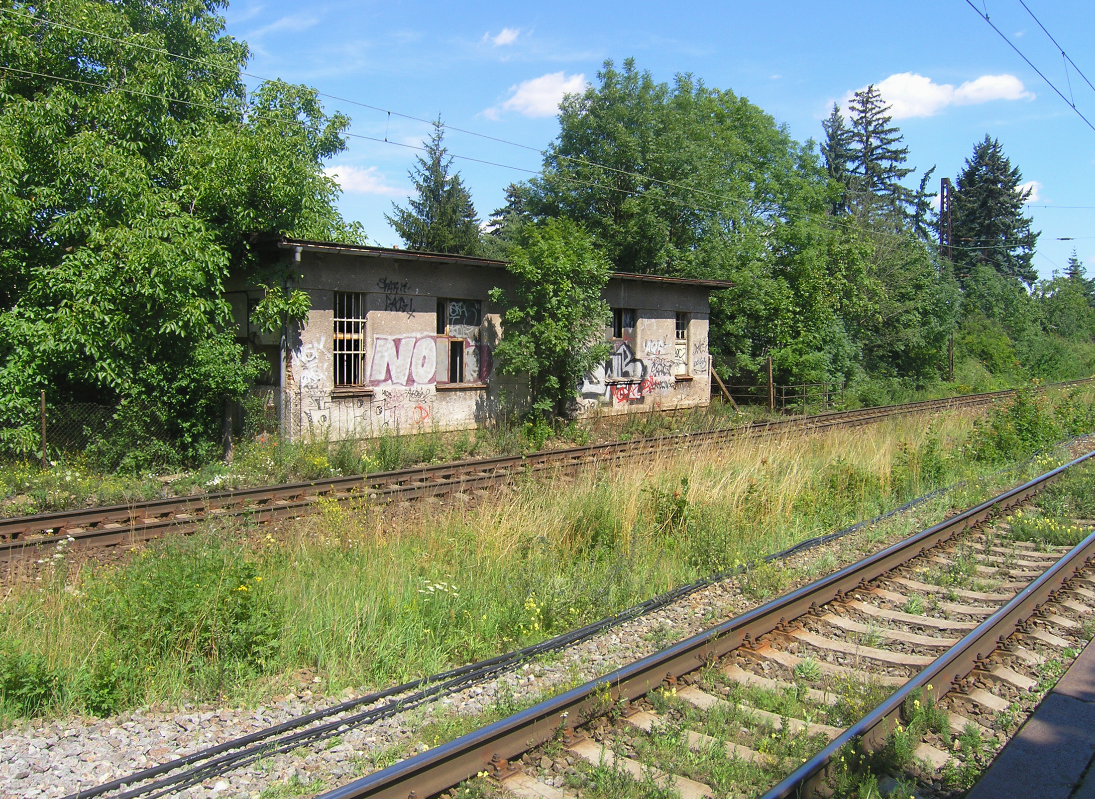 Old railway house at Dolní Počernice, Prague